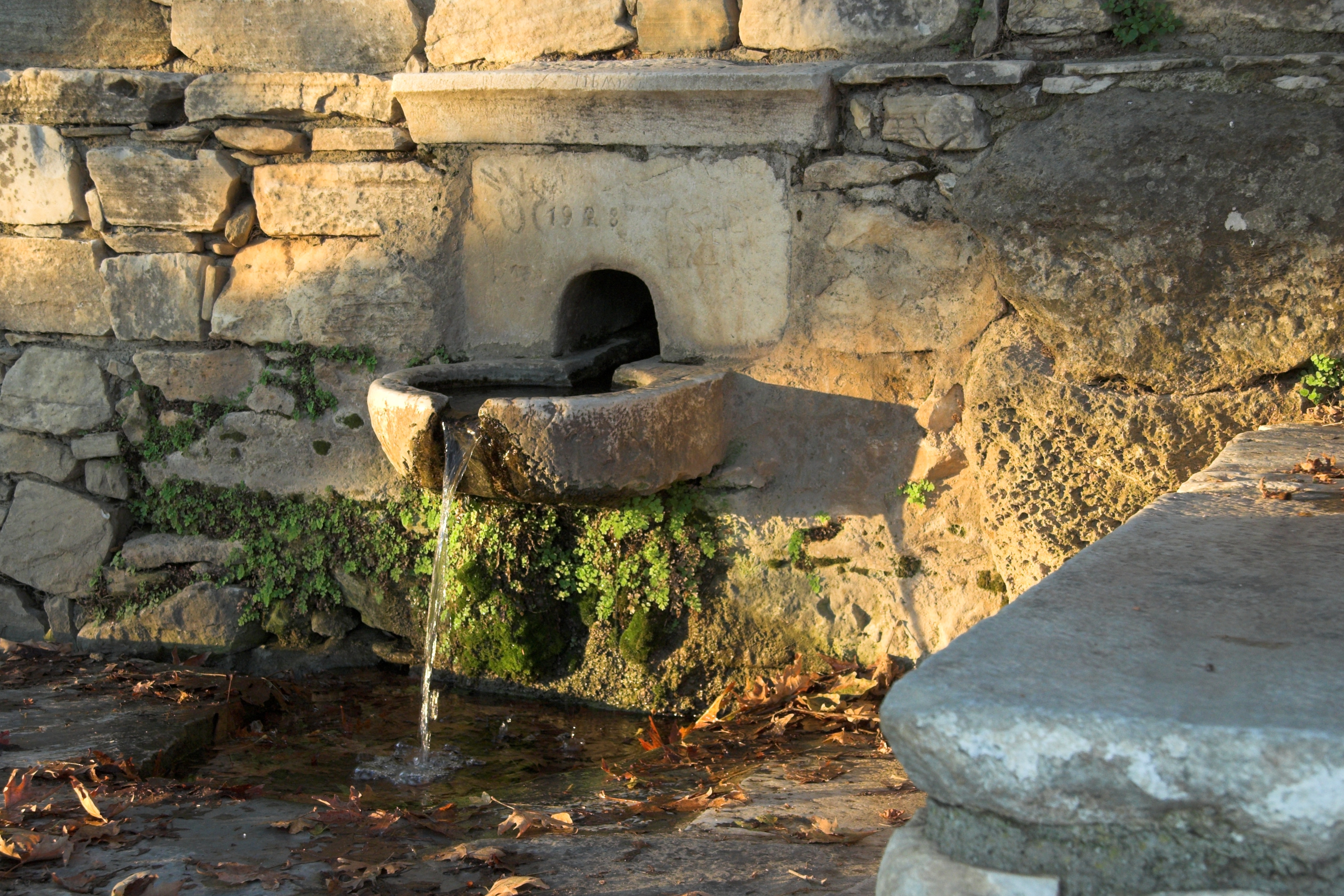 Fountain of Arion before the sunset.